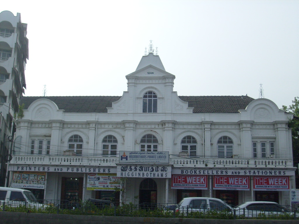 Front view of Chennai bookstore Higginbotham's